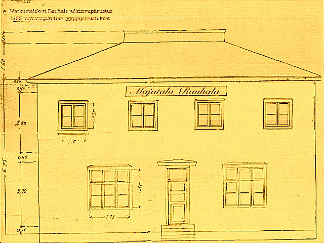 Rauhala Inn is a living museum in Kouvola Finland. Travellers can enjoy here the lifestyle of the 20 th century